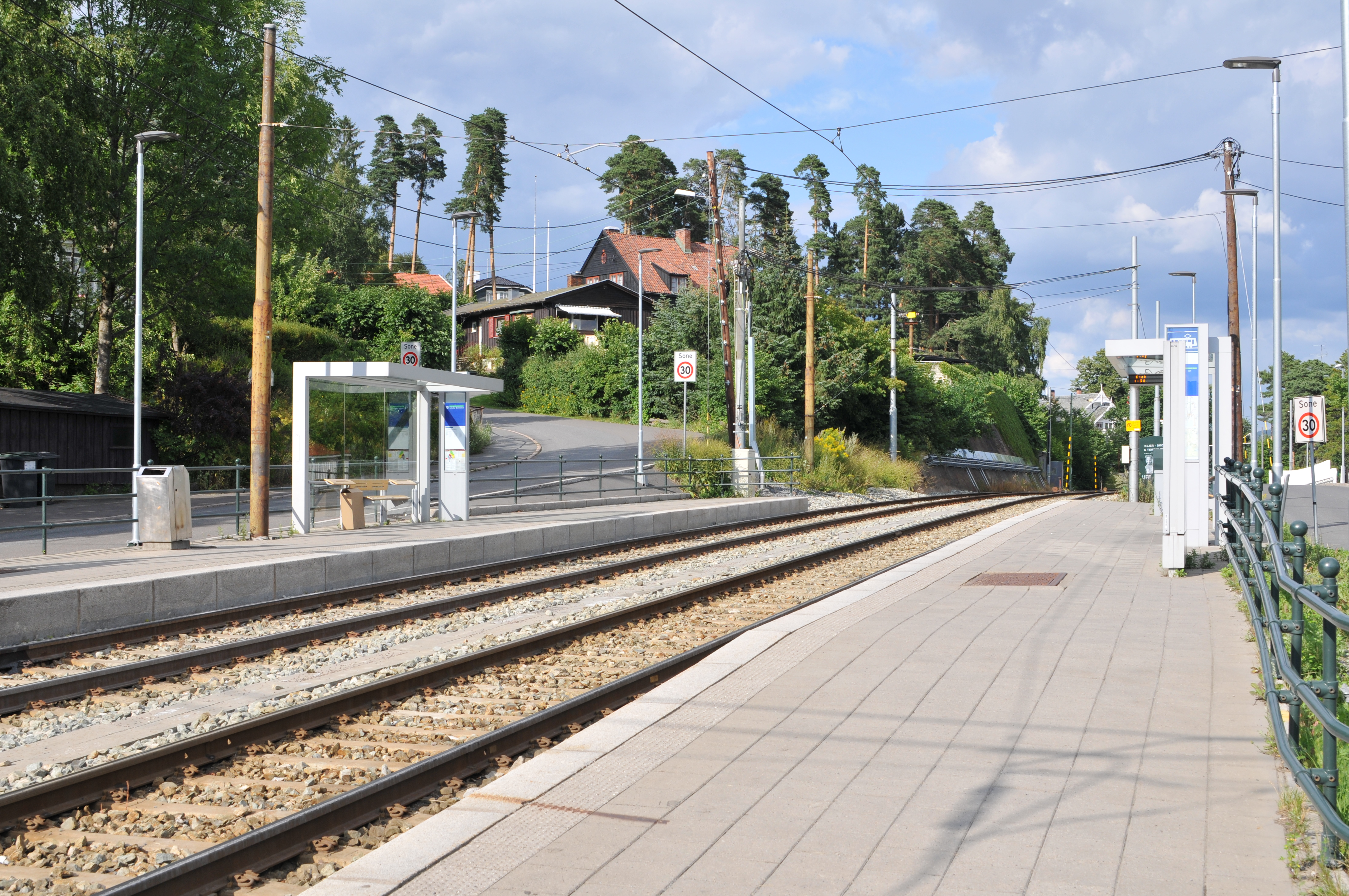 Furulund holdeplass from Vækerødveien